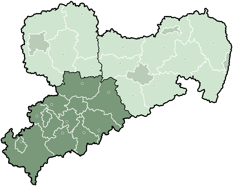 Map of the state Saxony in Germany before 2008, government region Chemnitz highlighted.